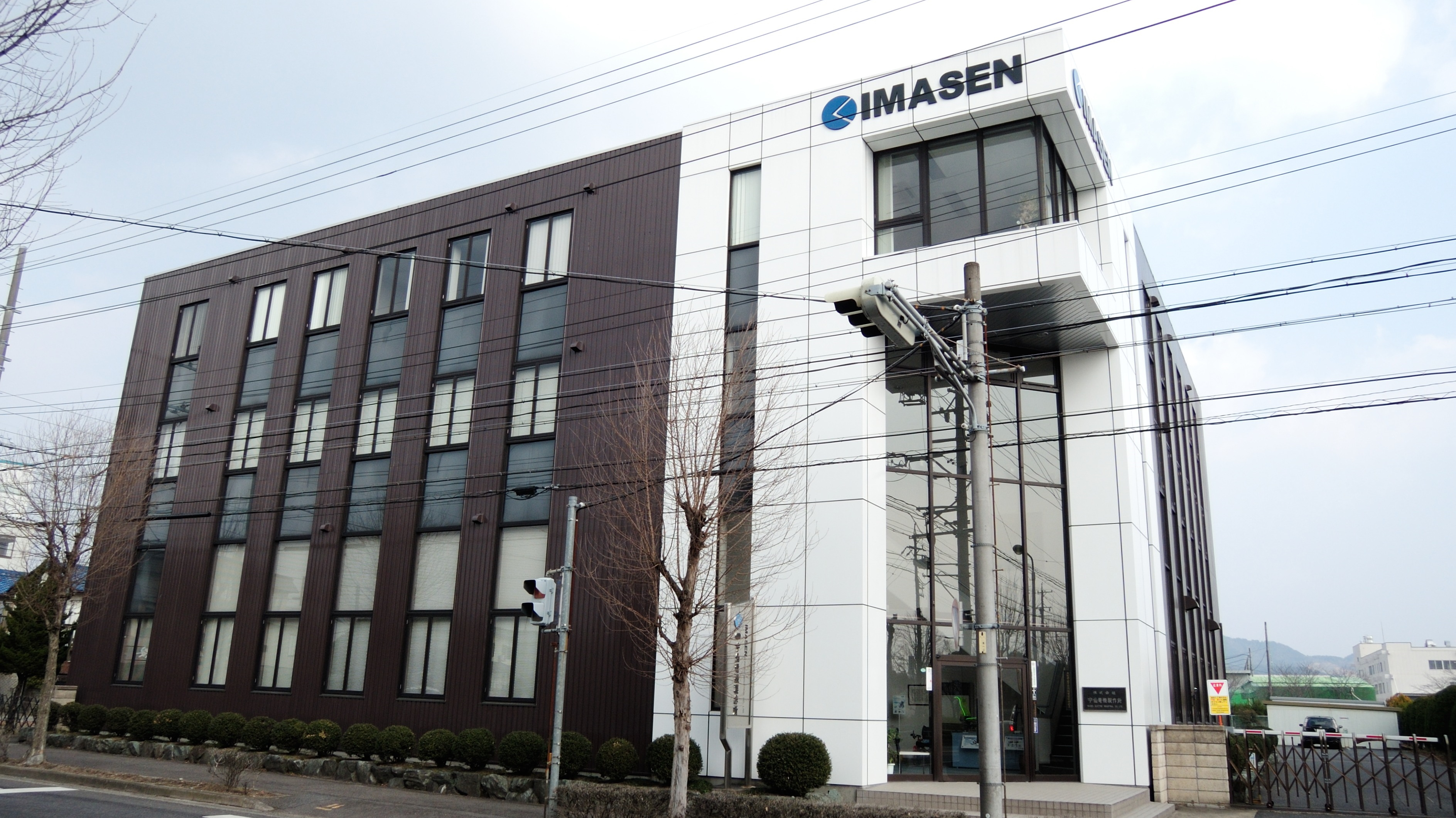 Headquarters of Imasen Electric Industrial Co., Ltd.,Aichi prefecture,Japan